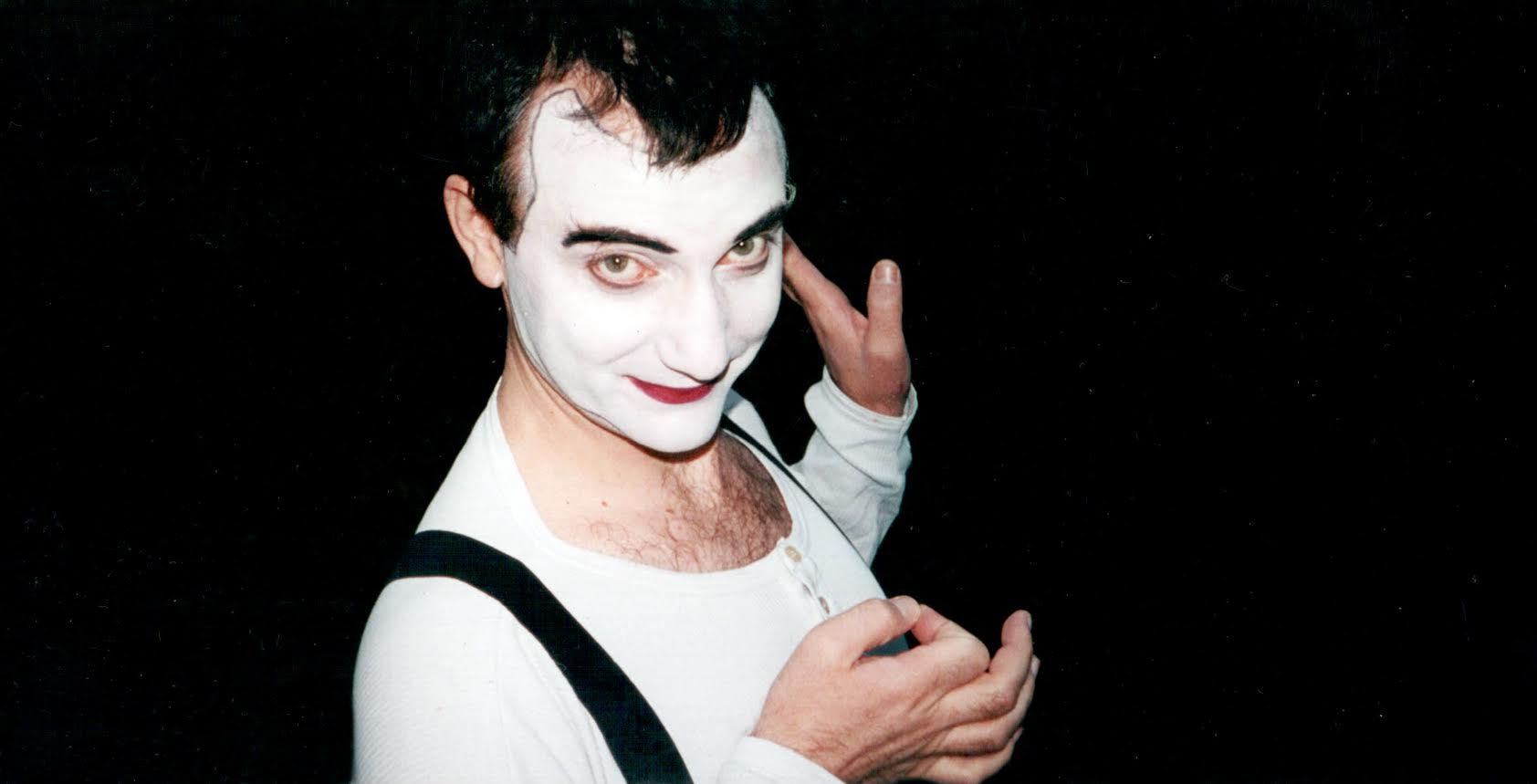 Mime Flower - Marko Stojanovic